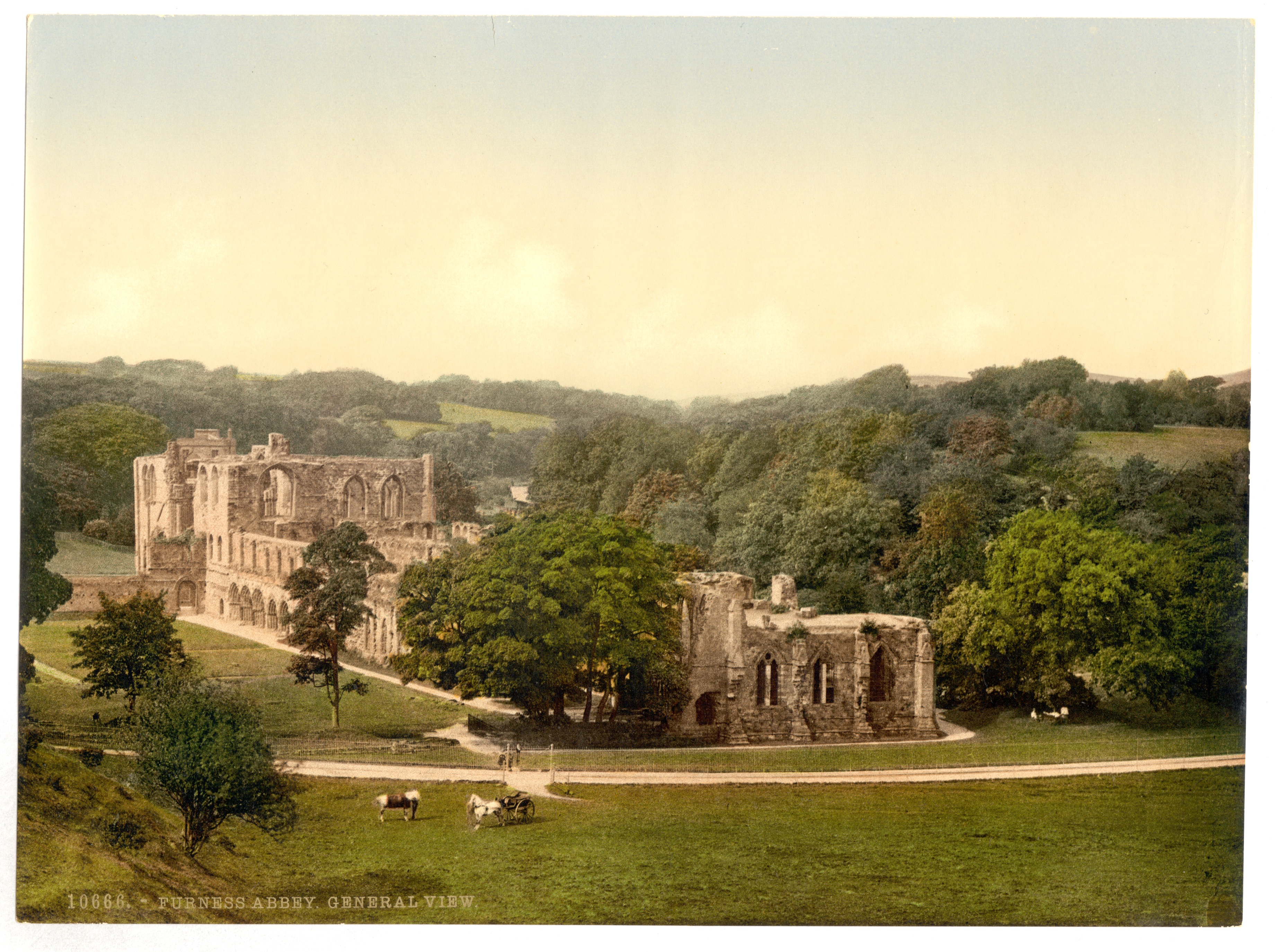 Forms part of: Views of the British Isles, in the Photochrom print collection.; More information about the Photochrom Print Collection is available at Print no. "10666".; Title from the Detroit Publishing Co., Catalogue J-foreign section, Detroit, Mich. : Detroit Publishing Company, 1905.